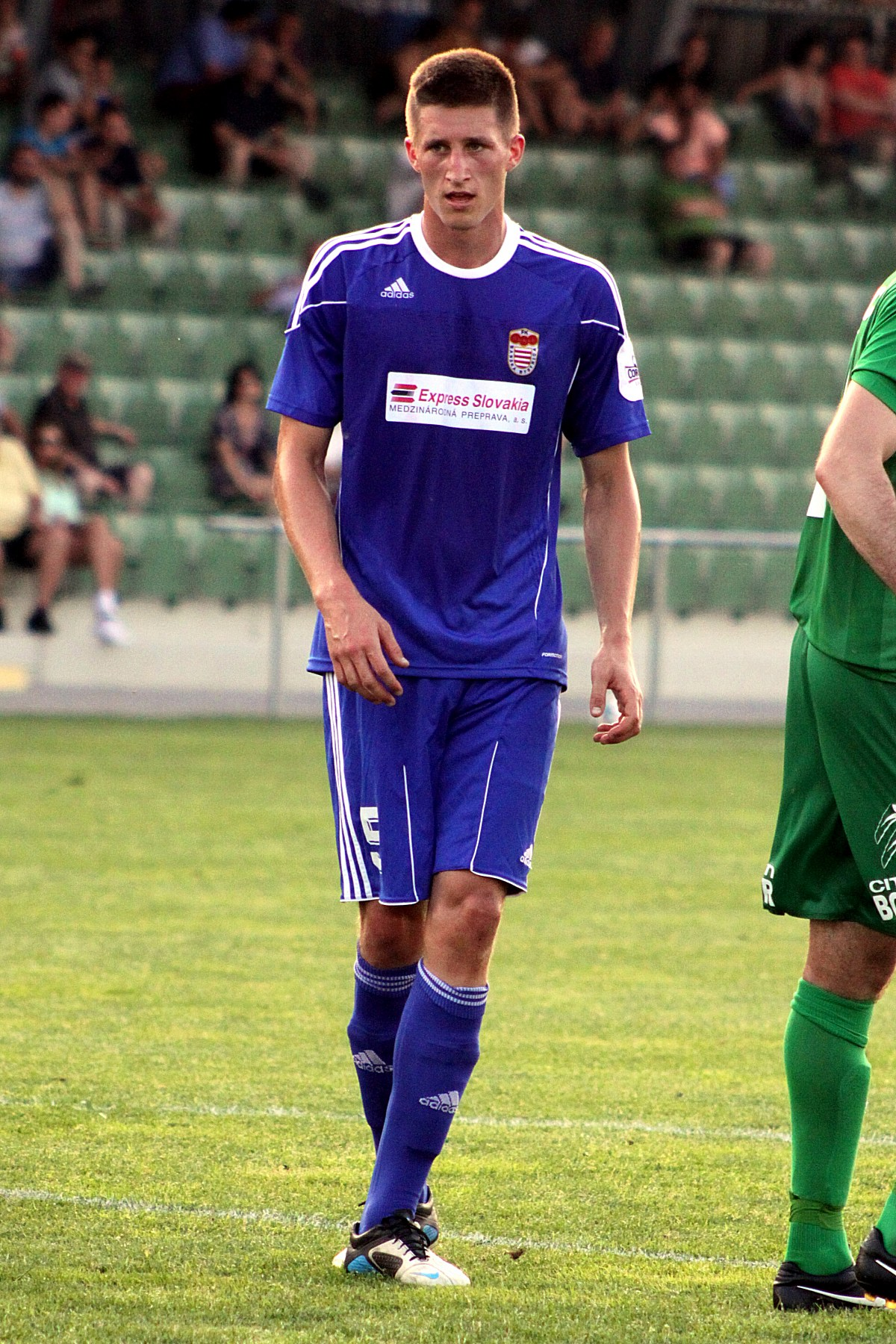 Friendly match SV Mattersburg vs FK Dukla Banská Bystrica (2:2) at 2013-06-21 in Mattersburg. – The photo shows Matej Podstavek (FK Dukla Banská Bystrica).